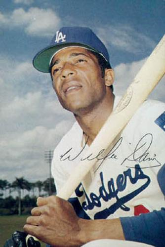 A baseball card of Willie Davis from the 1971 Ticketron Los Angeles Dodgers set.